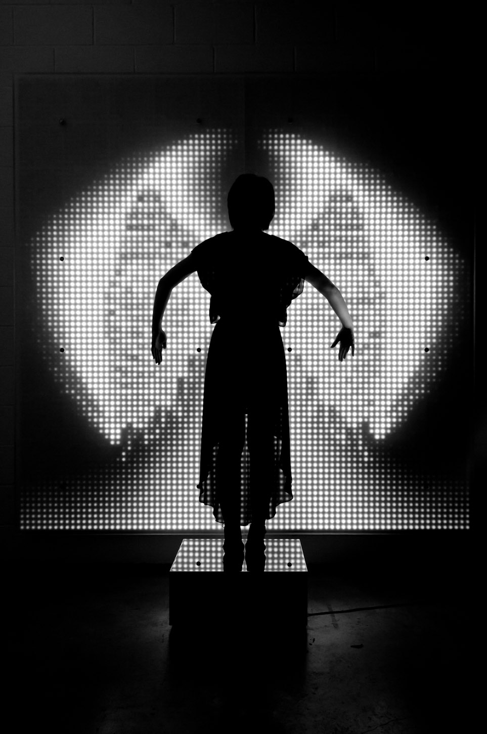 Ice Angel artwork by artist Dominic Harris and produced by Cinimod Studio